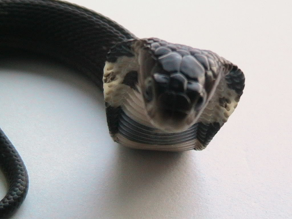 a chinese cobra (Naja atra)